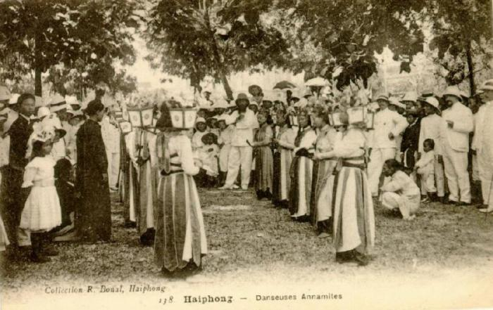 Ethnic dance in Haiphong, Vietnam.